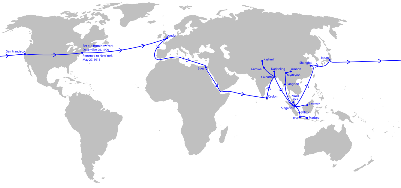 A map of the locations visited by William Beebe during his expedition to document the world's pheasants, 1909-1911.